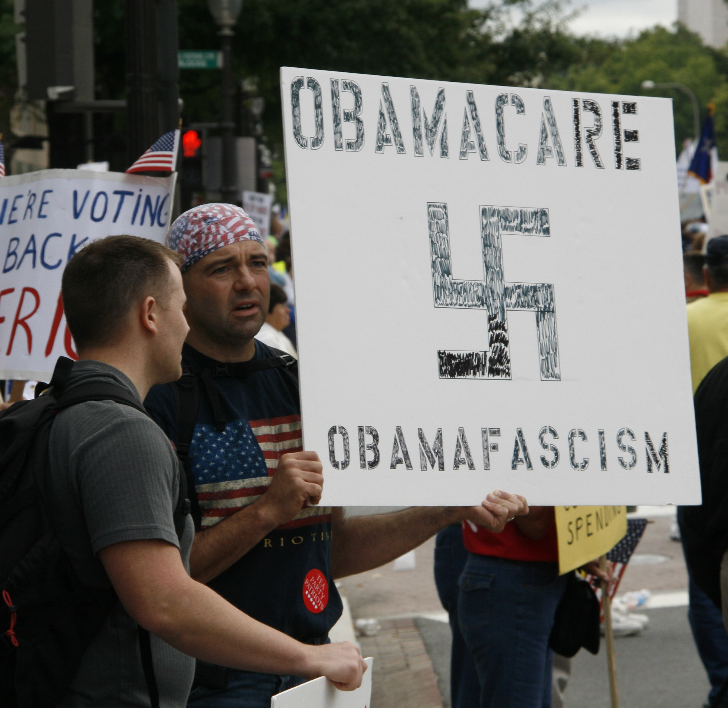 Protesters at the Taxpayer March on Washington.